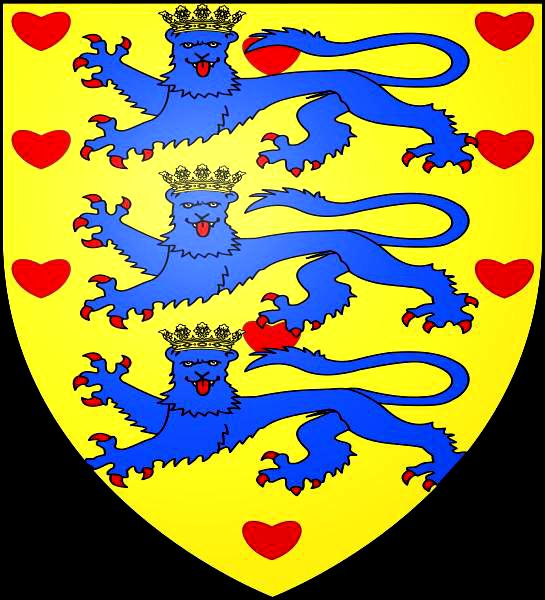 old Danish royal coat of arms, Estrith Dynasty